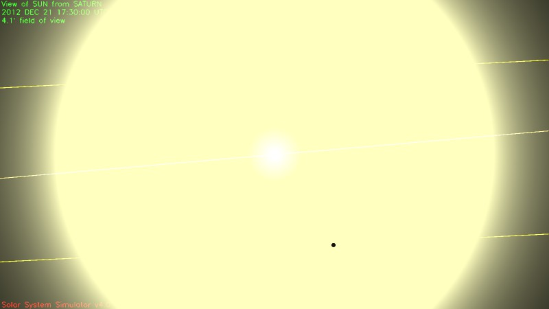 Simulation of Venus transiting the Sun on 2012-Dec-21 as seen from Saturn.